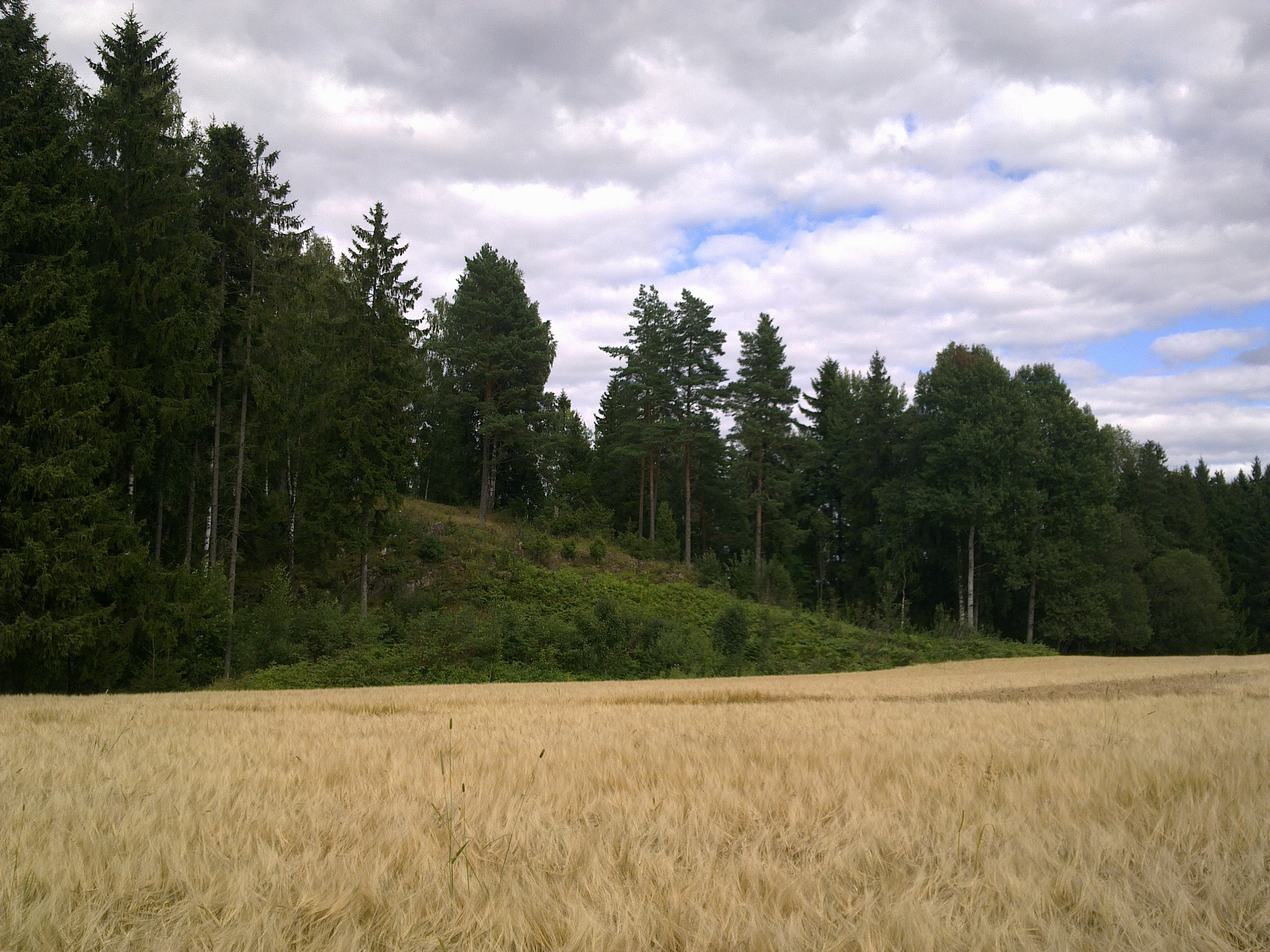 The hill used for the Norwegian artillery battery at Langnes skanse.